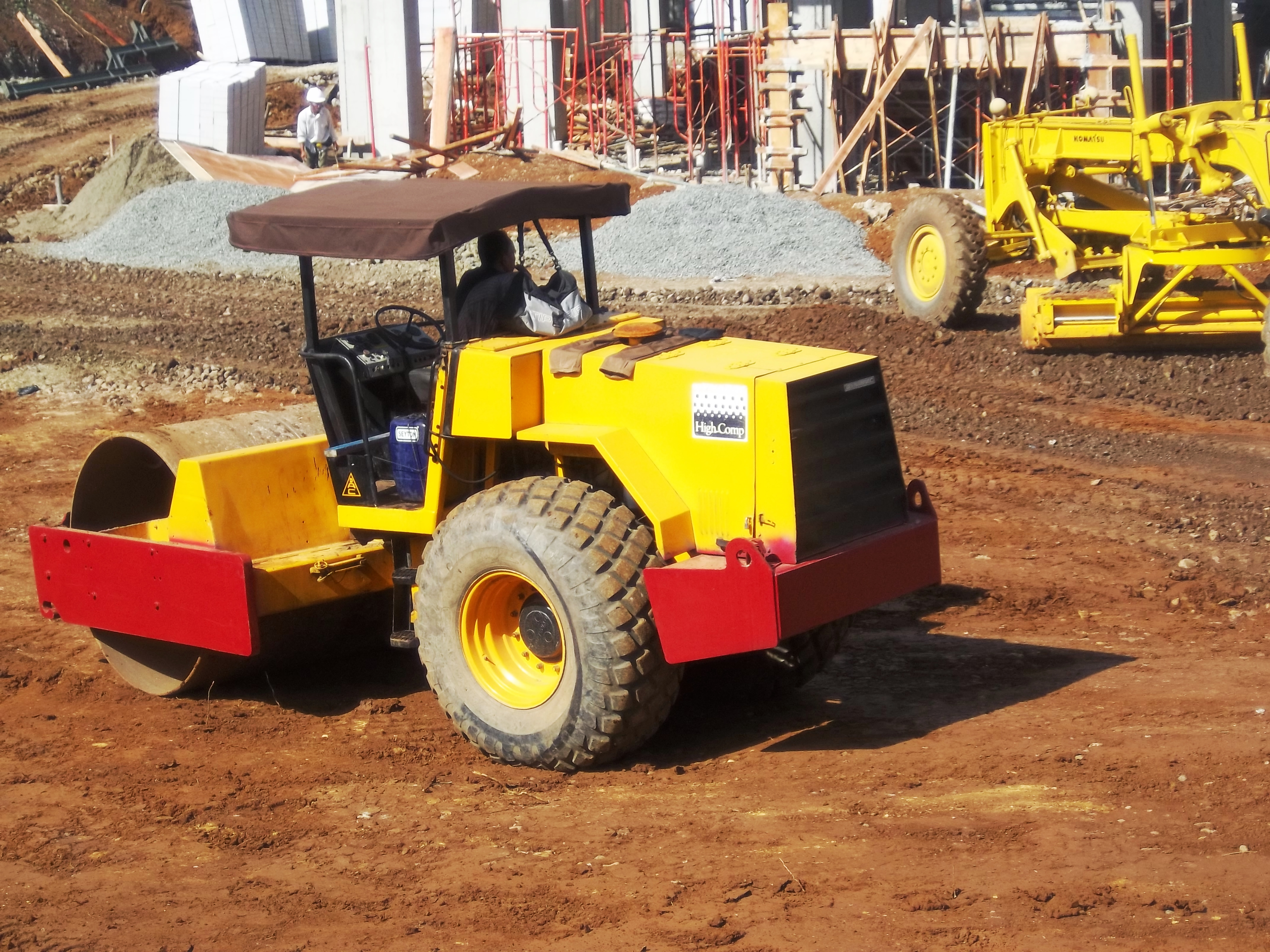 Roller working in construction site, Bogor Agricultural University